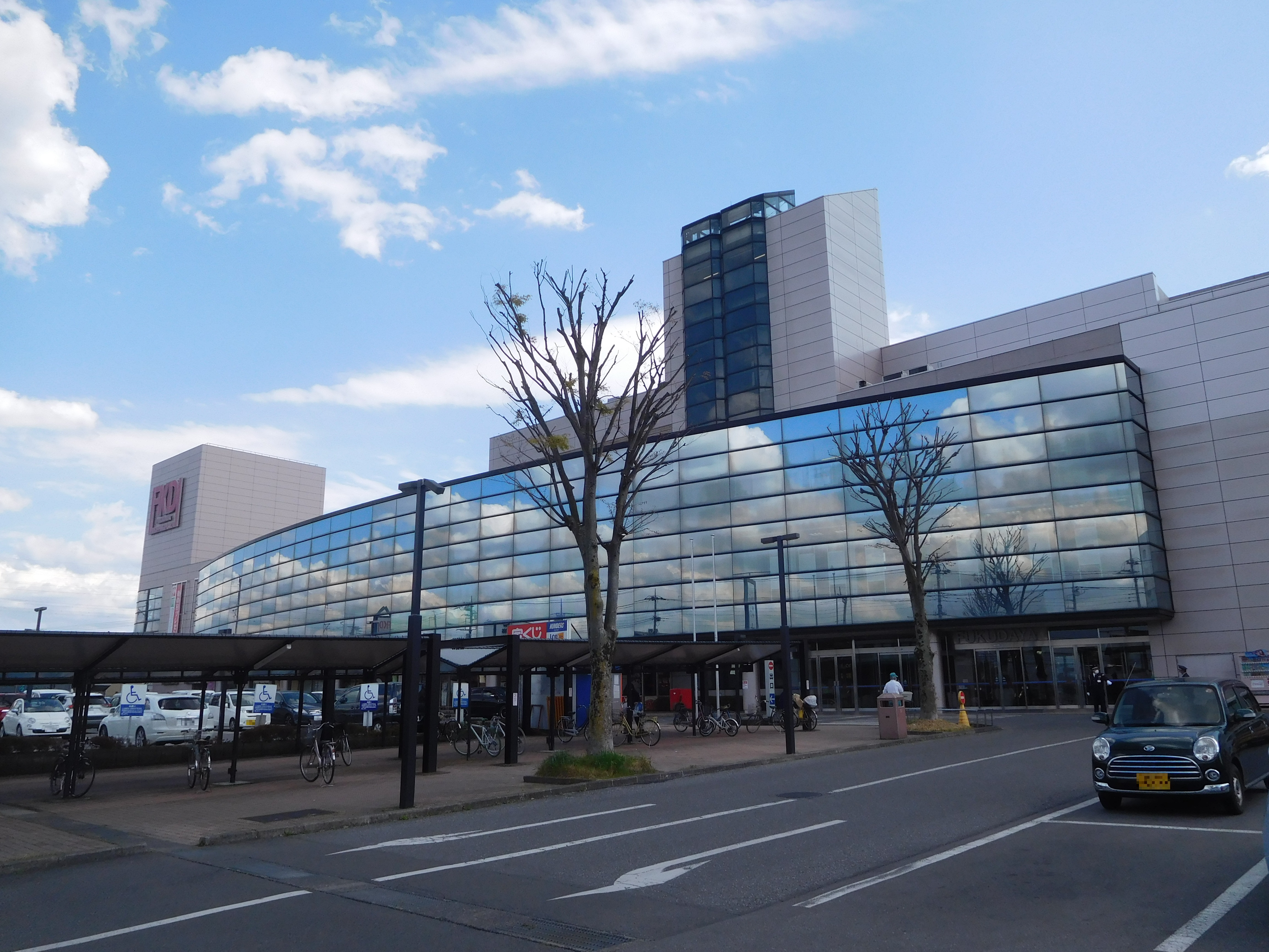 This is FUKUDAYA Shopping Plaza Utsunomiya in Utsunomiya, Tochigi, Japan.